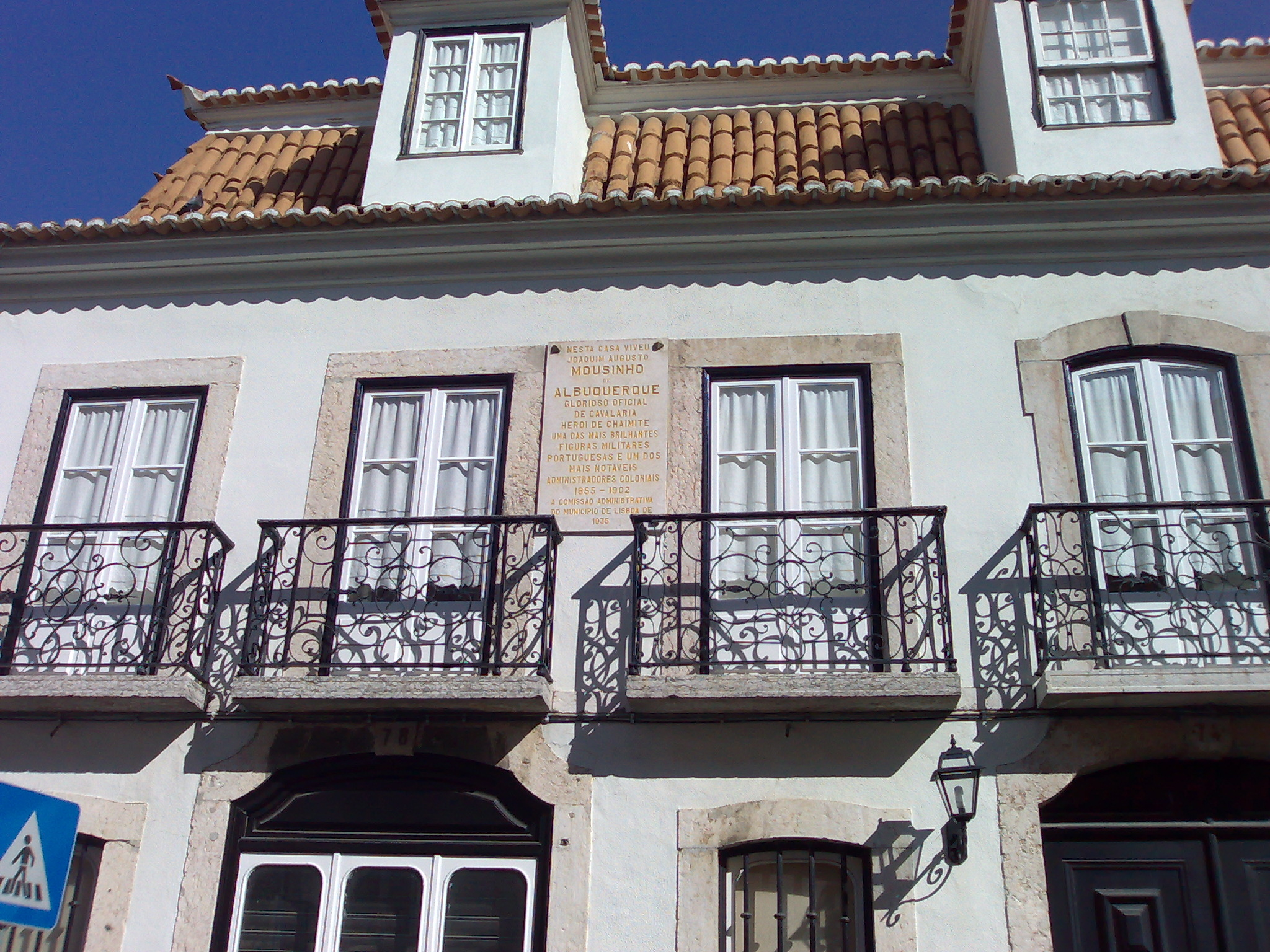 Facade of the house of Joaquim Mouzinho de Albuquerque in Lisbon